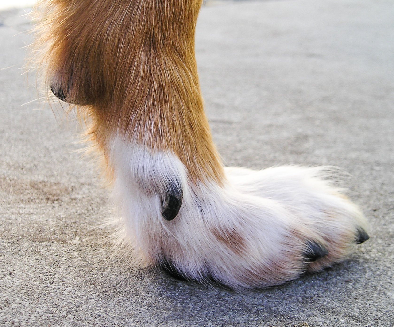 Dog's dewclaw that is a little overgrown on this 13-year-old dog, although its end remains worn smooth from contact with the ground while running. Taken by Elf